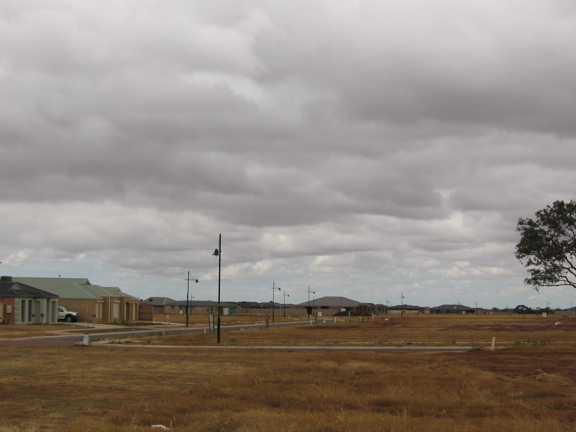 A new housing estate, in the Kurunjang area of Melton, Victoria.